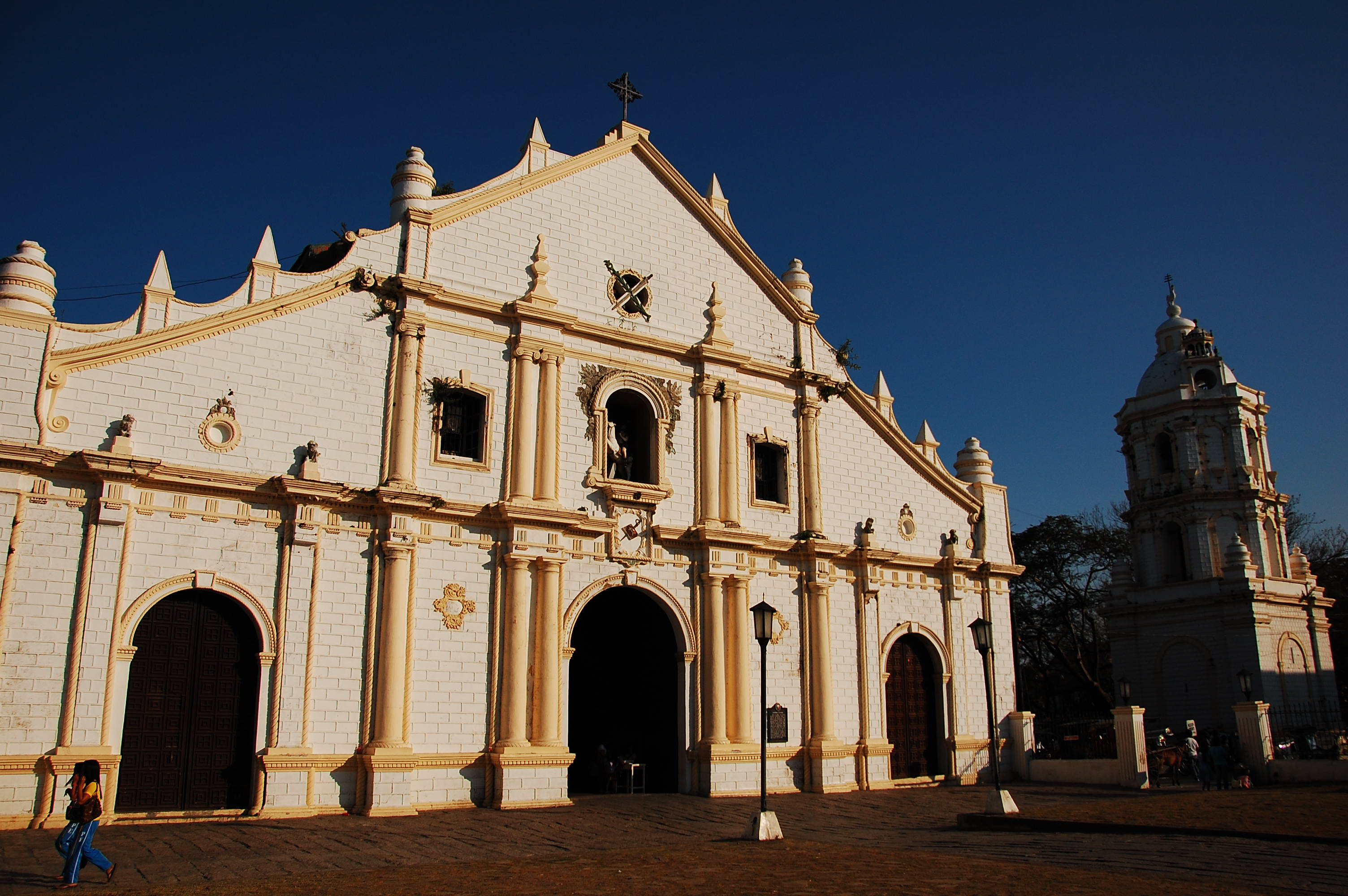 The facade of Vigan Cathedral in Vigan, Ilocos Sur, faces the west. The setting sun casts a golden glow on the walls of the church.